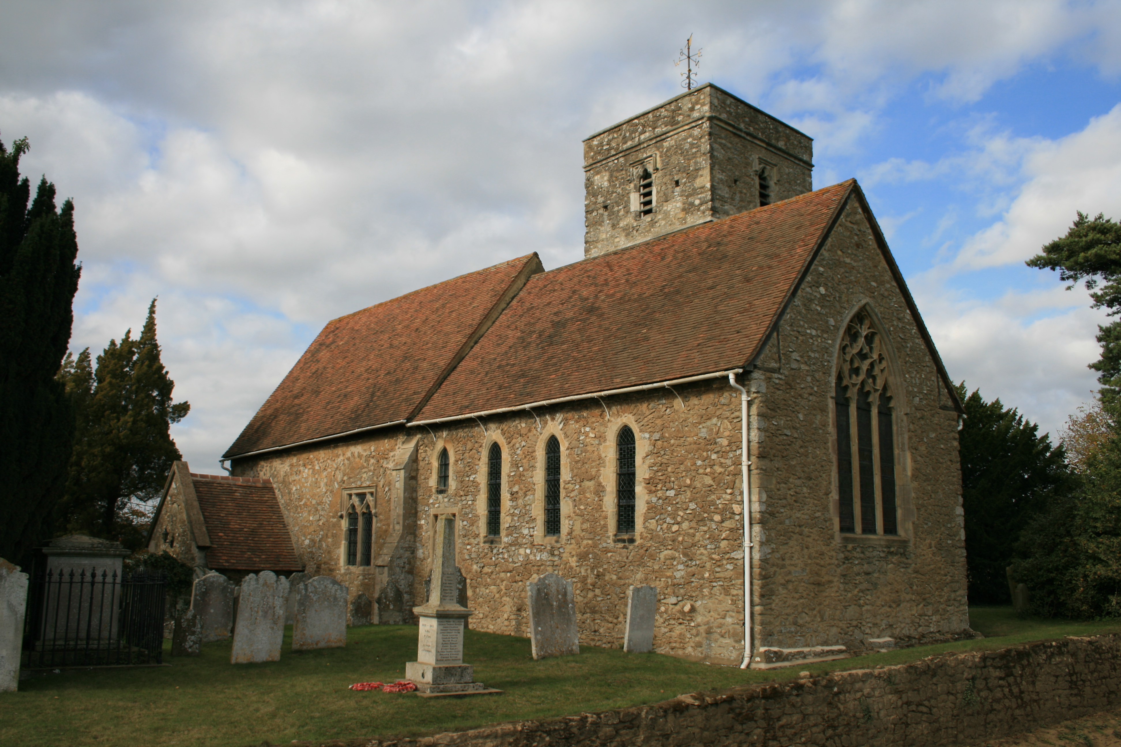 St Michaels Church Offham, Kent